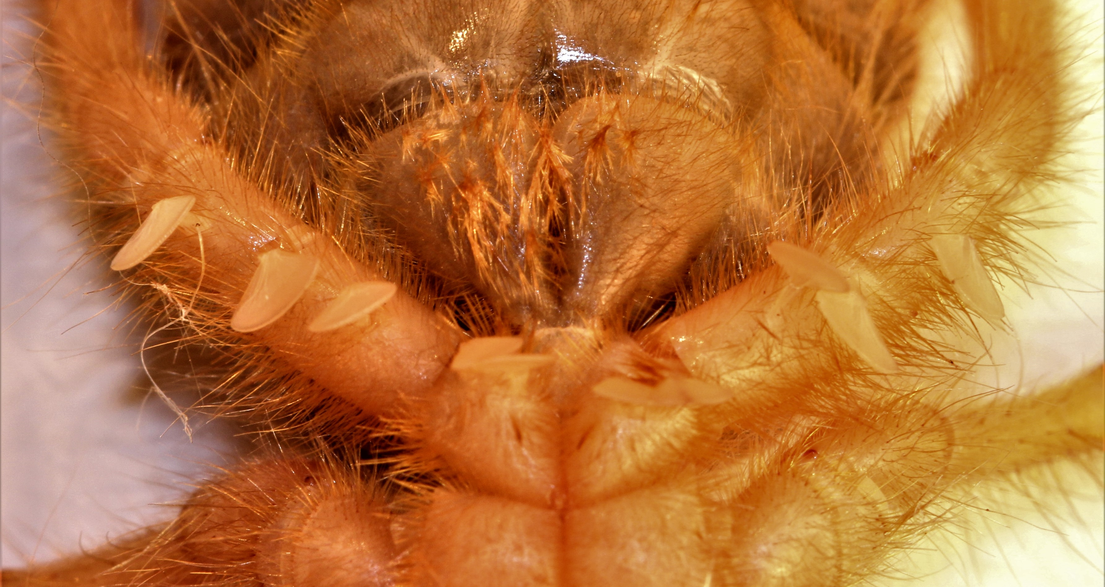 Solifugae Ventral aspect of region with malleoli